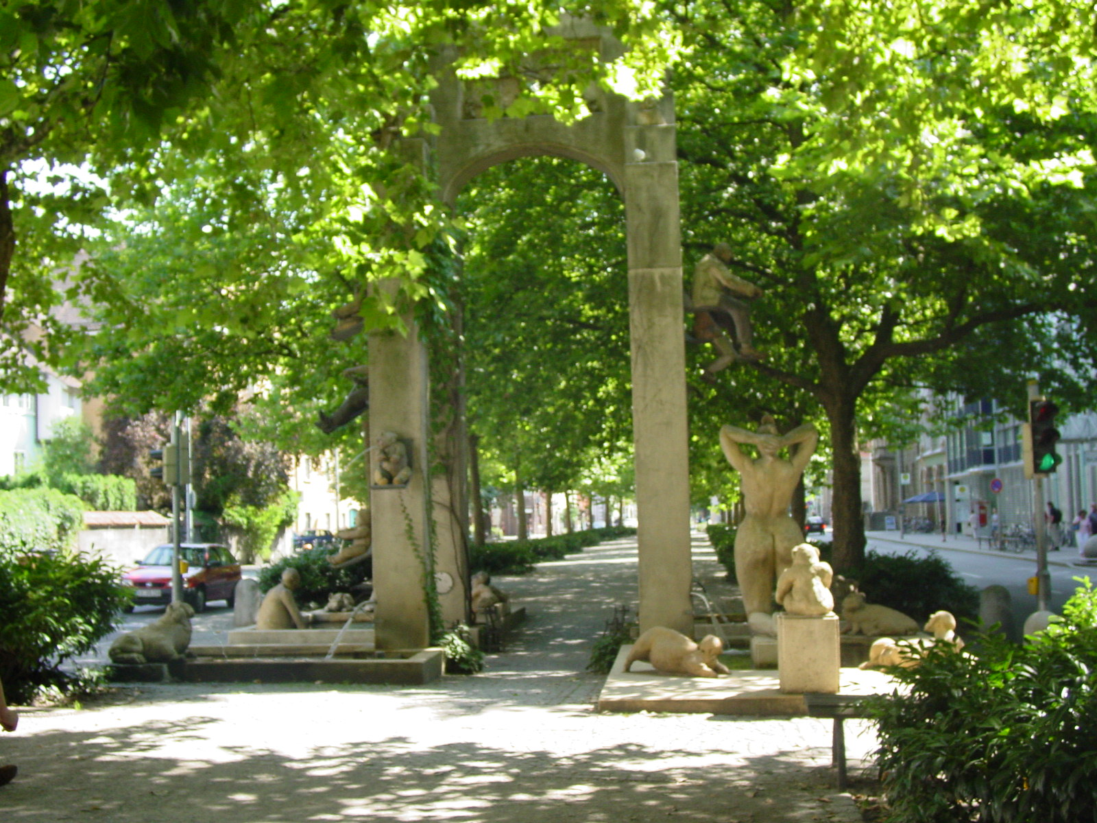 Konstanz, Author: Stako July 2003